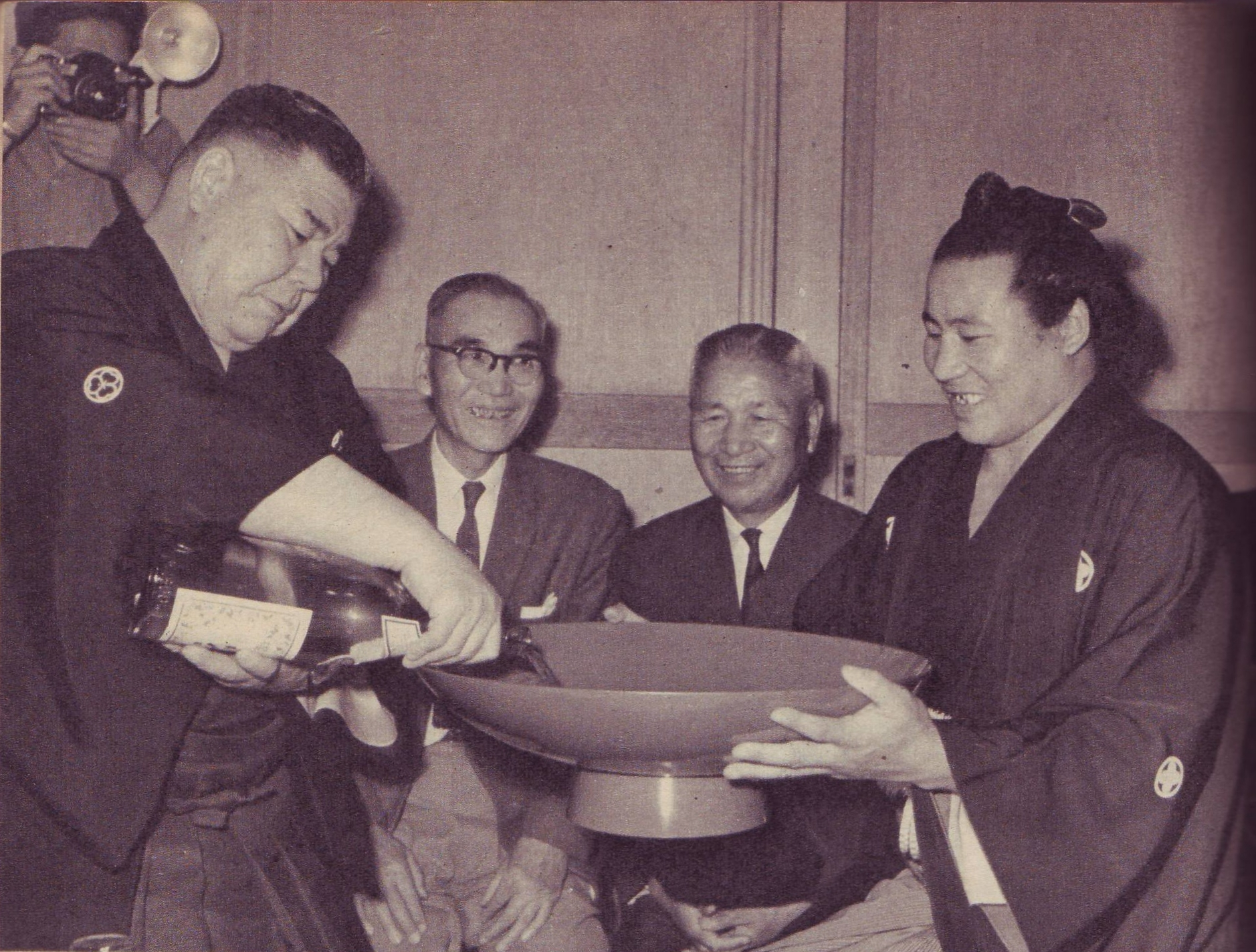 Sadanoyama Shinmatsu and Dewanoumi Yoshihide (Dewanohana Kuniichi) (left). taken in 1961.